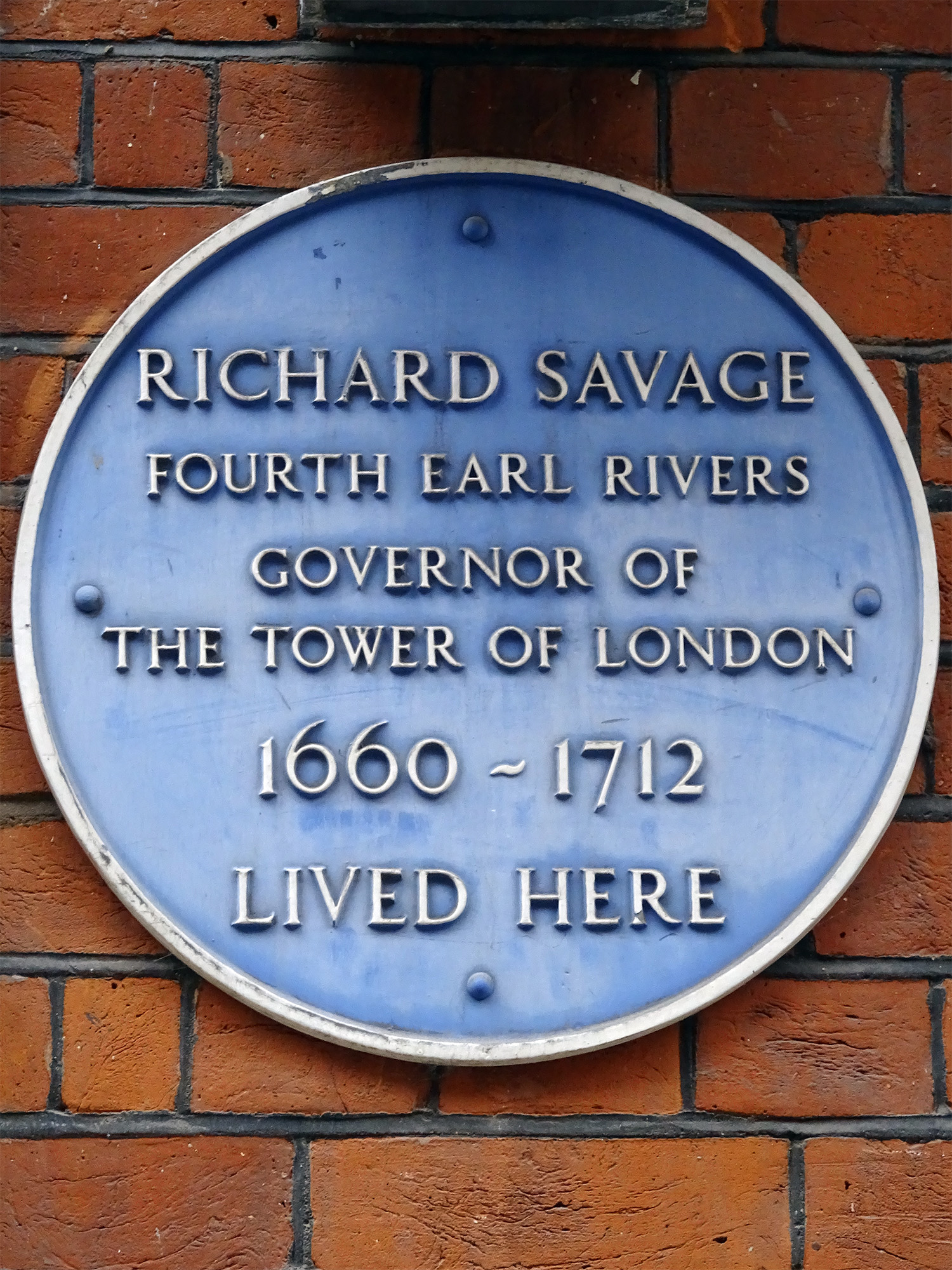 Blue plaque at 9 Old Queen Street Westminster London SW1H 9HP - "Richard Savage Fourth Earl Rivers Governor of The Tower Of London 1660-1712 lived here"